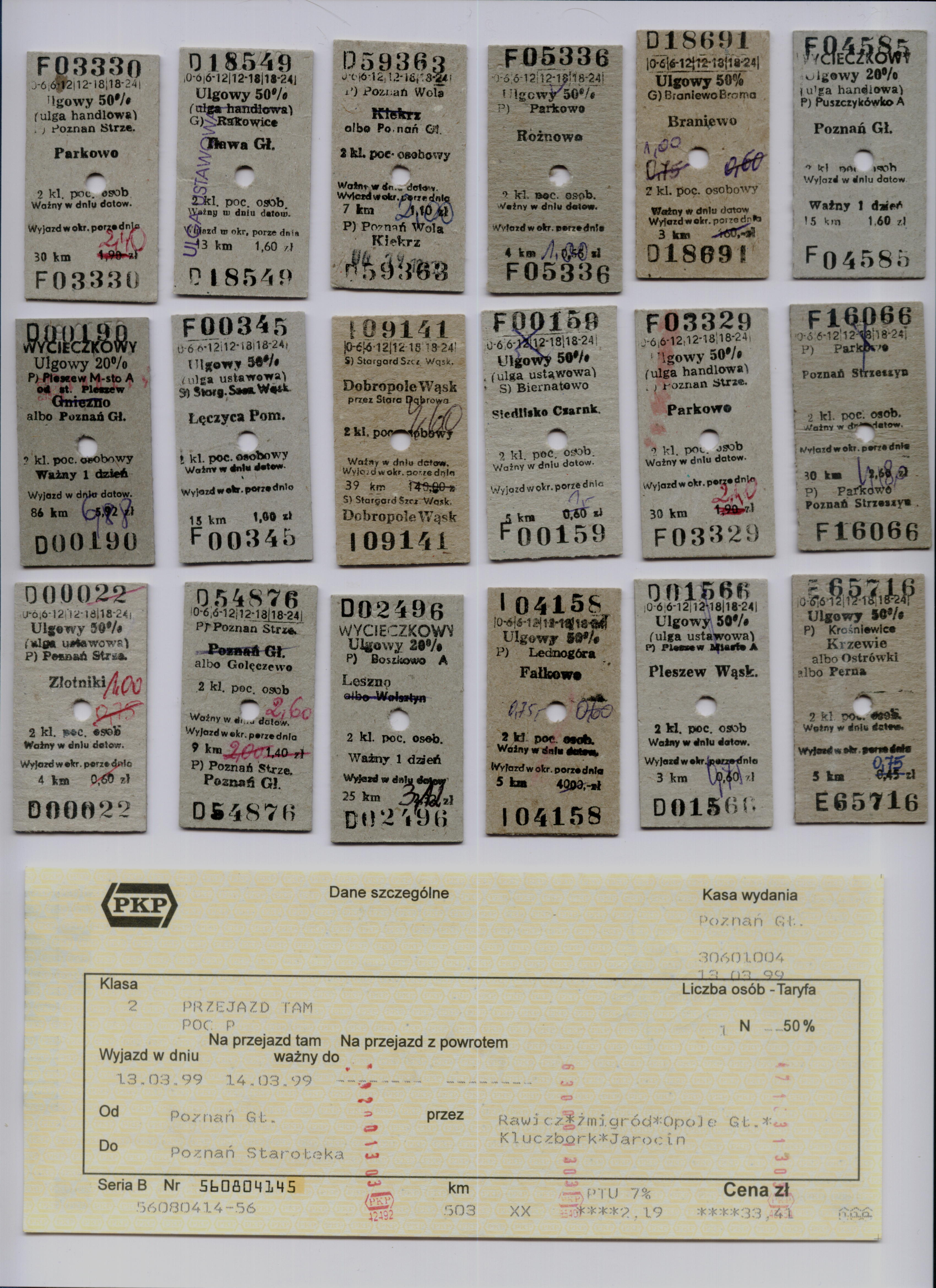 Classic (Edmonson) train tickets, issued by the smallest ticket offices of PKP in Poland in 1998 - 2000. Due to inflation in 1990s and re-denomination of currency in 1995 (PLZ changed to PLN after cancelling 4 zeroes), the tickets were often sold for a different price than was pre-printed (see hand-written corrections, sometimes repeated). On the bottom, there is an example of a computer-generated ticket from the same period, typical for greater stations (this particular one was issued for a round trip "Poznań to Poznań"; in later years, the tariff changed to penalize such travel).